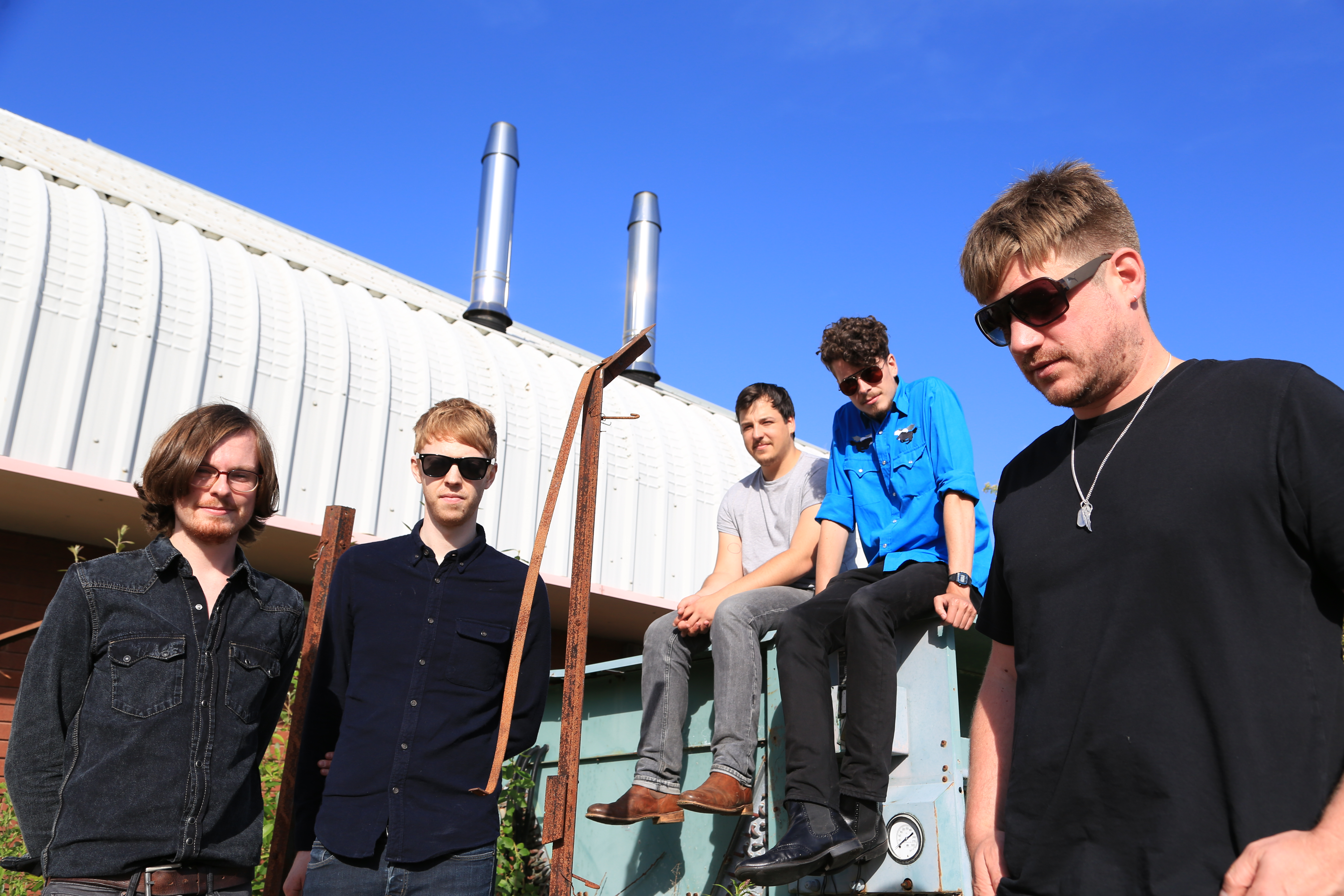 Endaf Gremlin. A Welsh band.